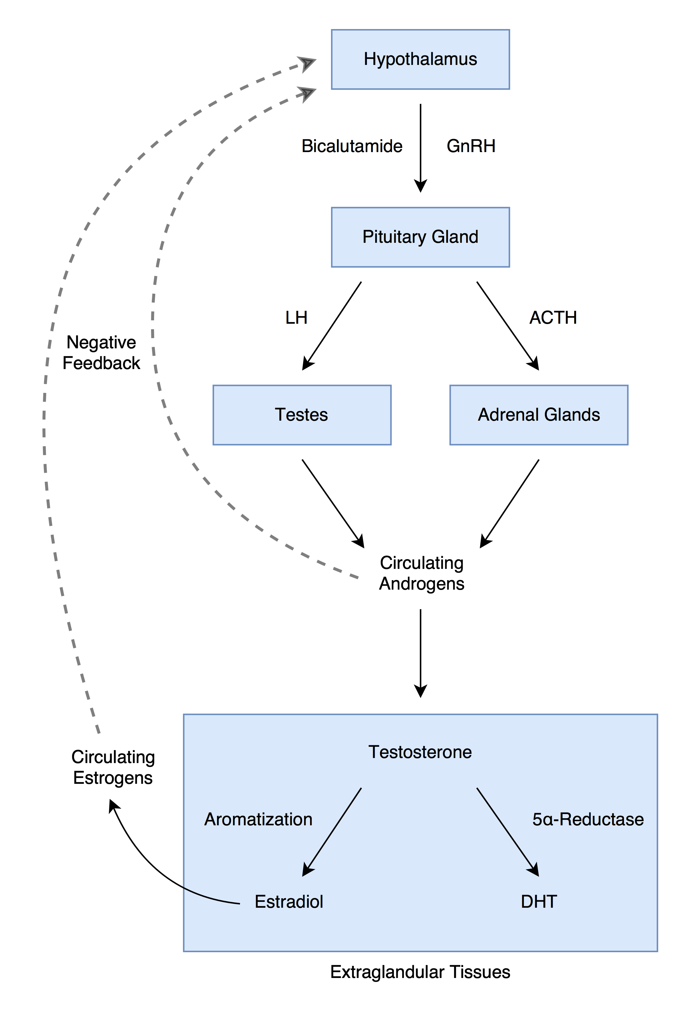 A diagram of the endocrine effects of bicalutamide and its influence on the hypothalamic-pituitary-glandular axes.